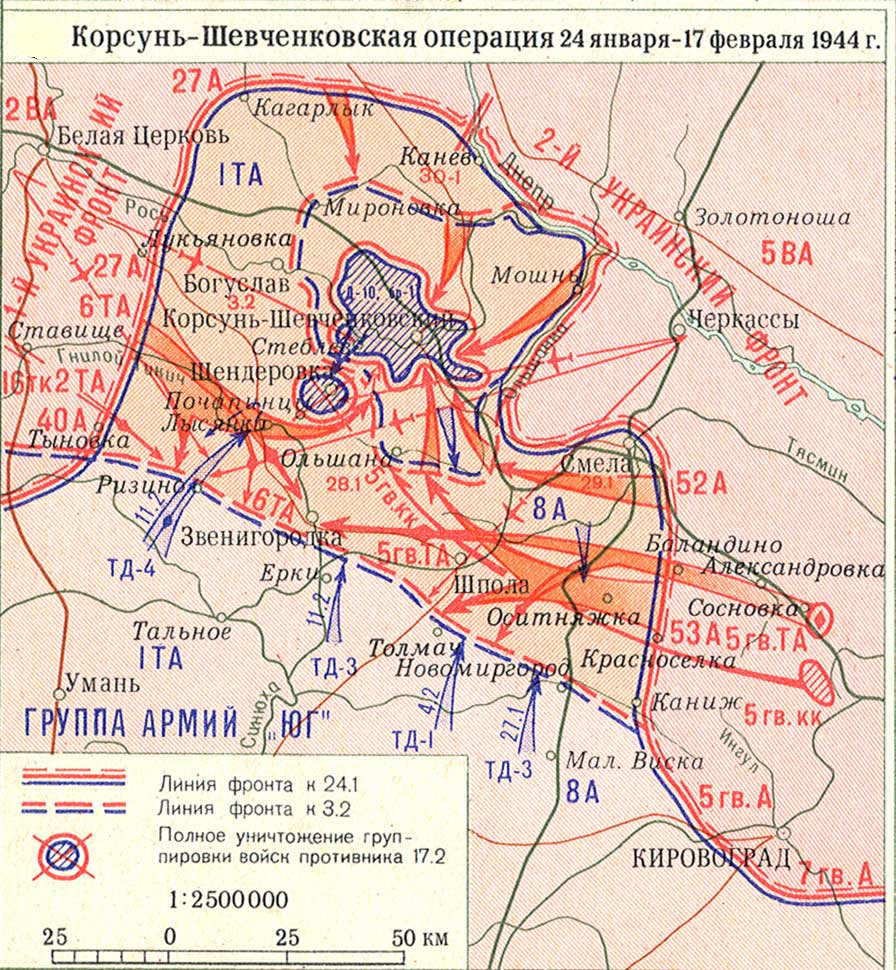 Battle of the Korsun–Cherkassy Pocket